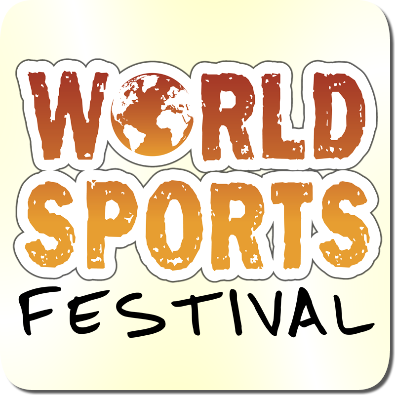 official Logo for WSF